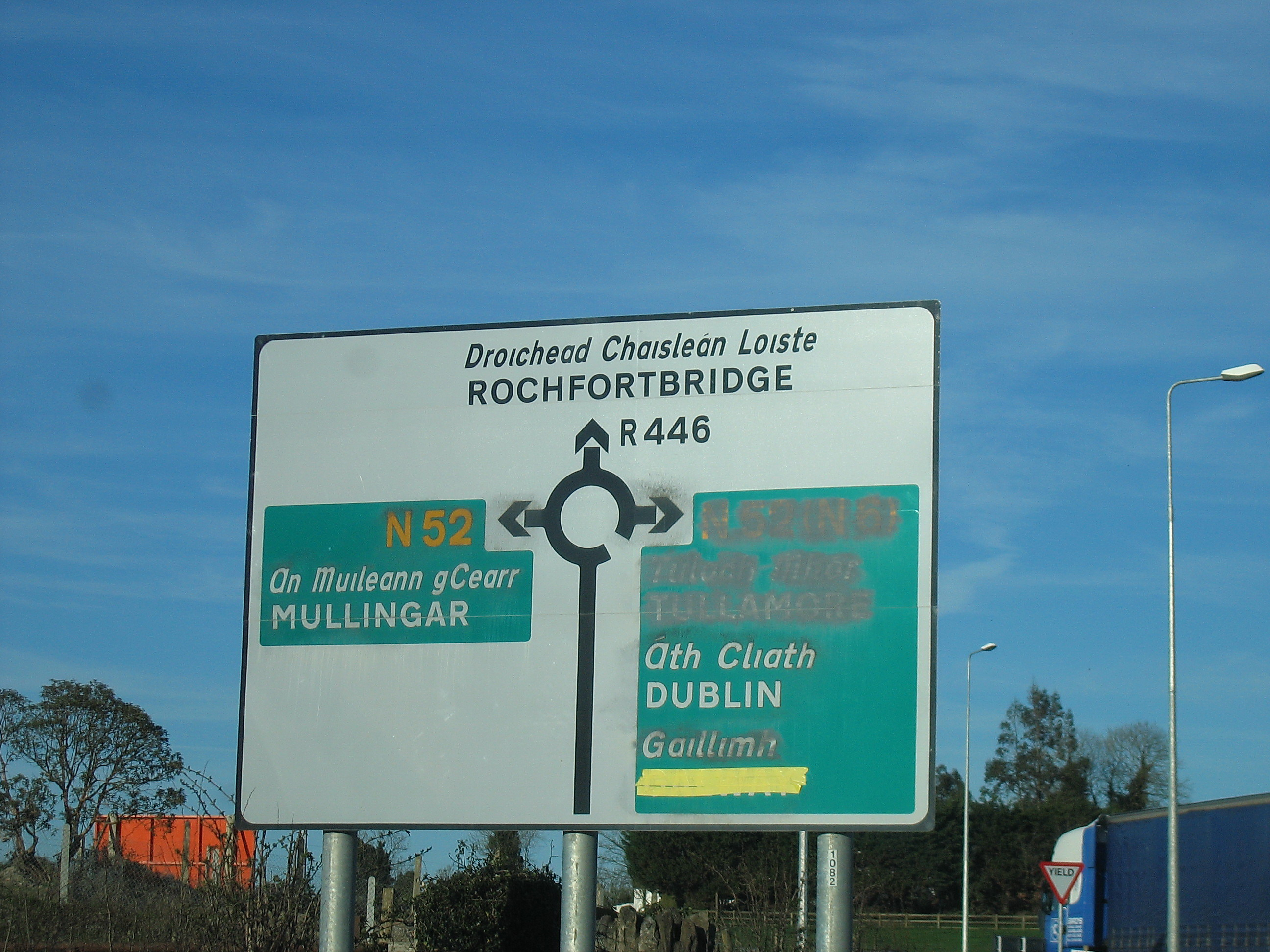 Sign heading east out of Tyrrellspass; N52 T'pass eastern bypass is opened (as of April 2007) and the new N6 dual-carriageway is open towards Dublin but not yet west towards Galway; hence the covered destinations.